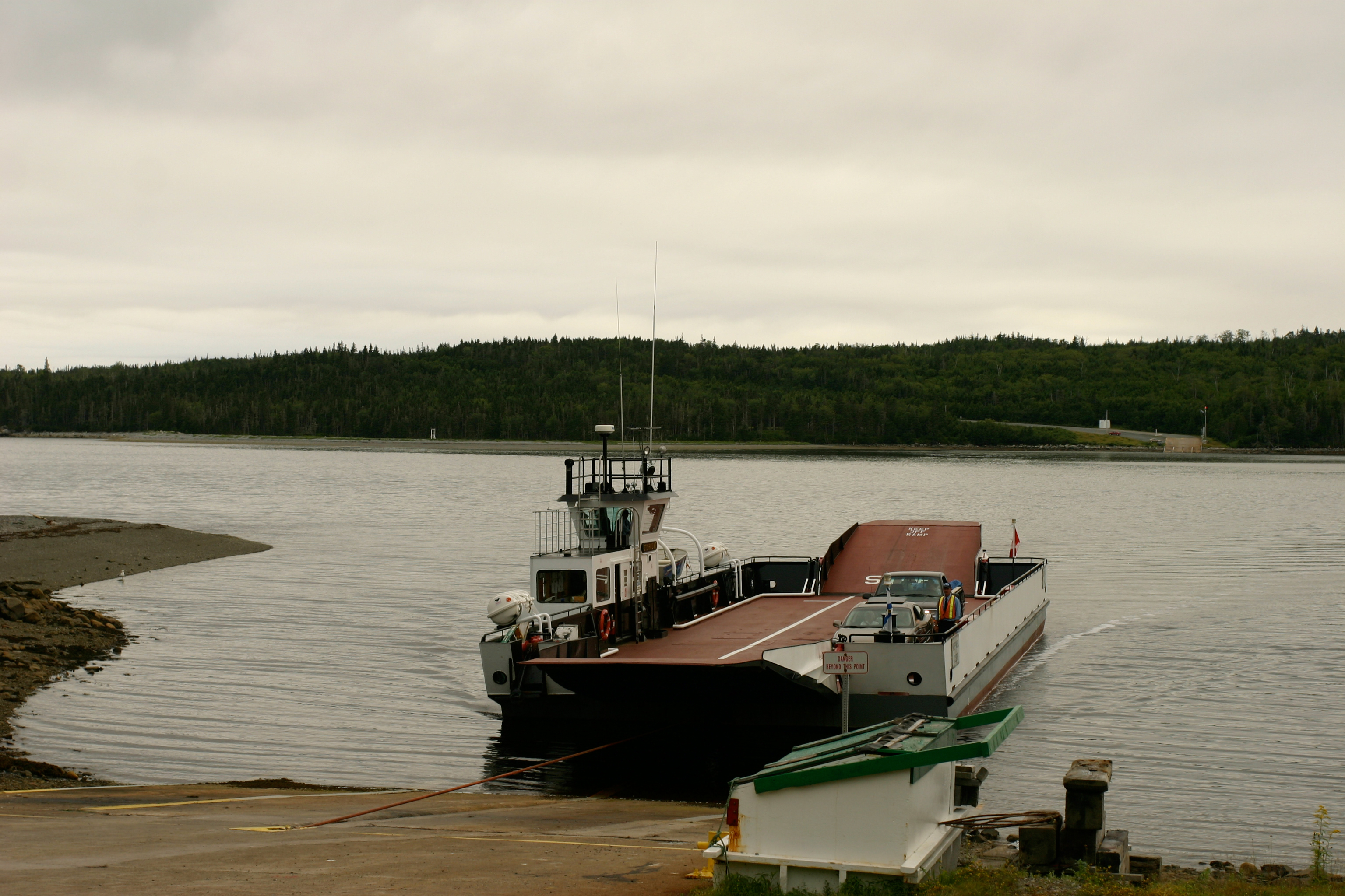 I talked with Martin, the nice man running the ferry that day, and he explained everything about how the cable ferries opperate. Very cool stuff.